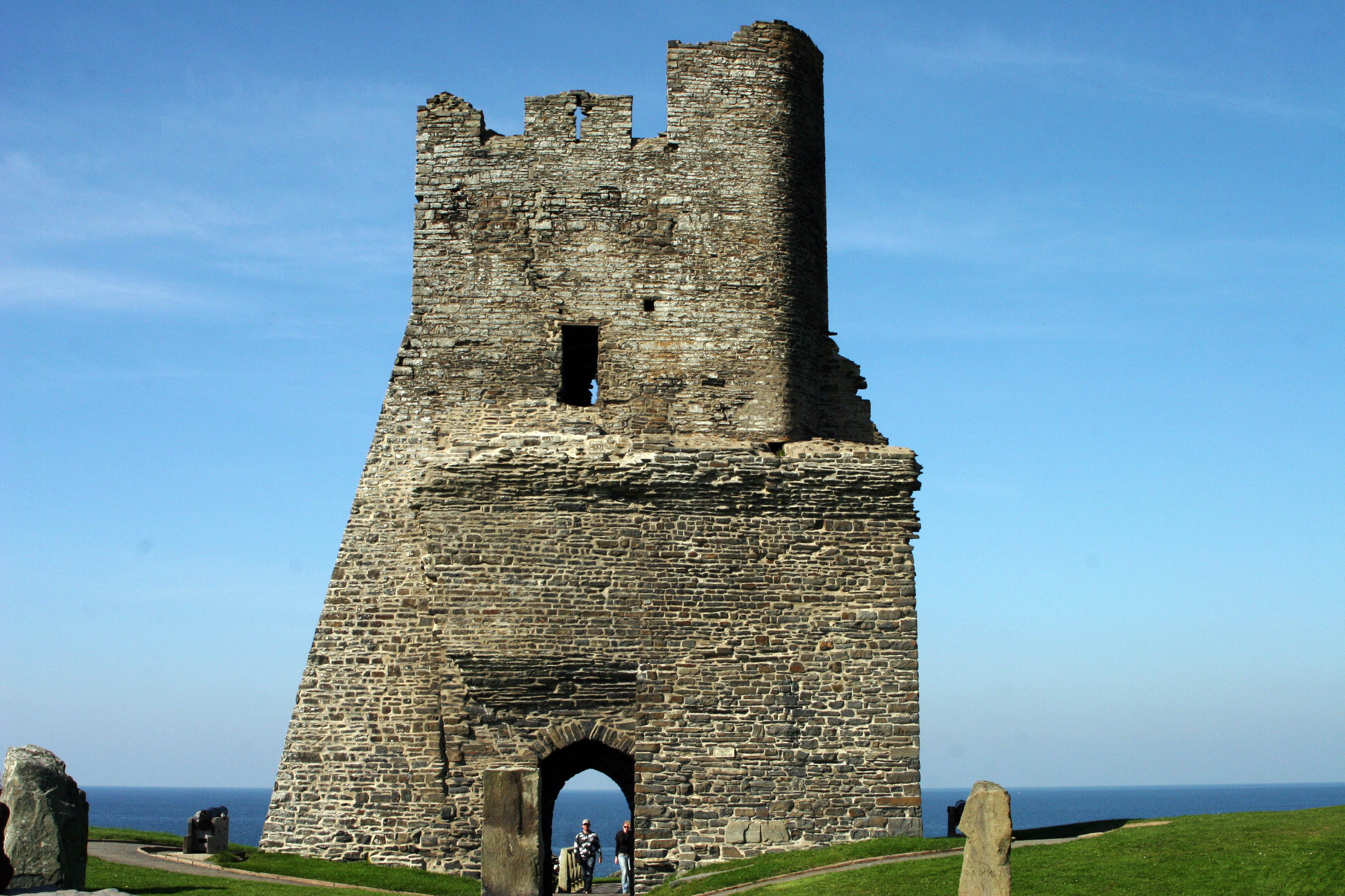 Picture of North Tower of Aberystwyth Castle